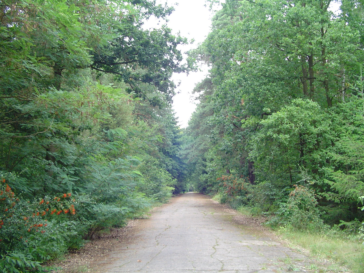 Südwestkirchhof Stahnsdorf near Berlin, Germany